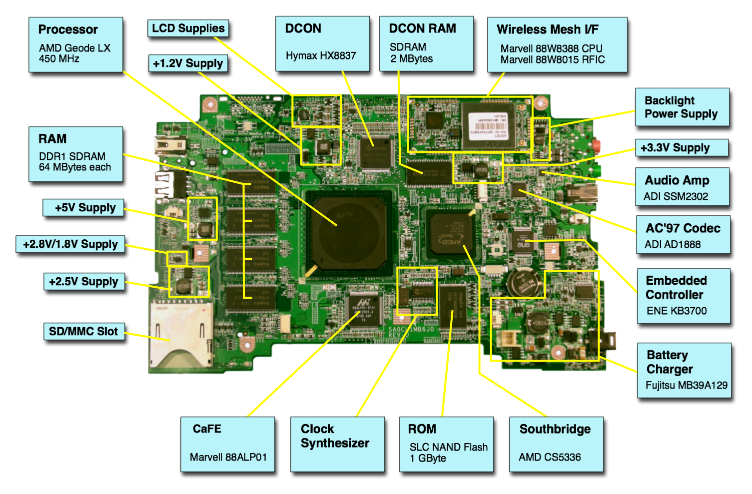 XO-1 annotated motherboard